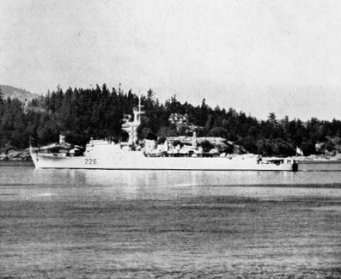 The Royal Canadian Navy frigate HMCS Crescent (DDE 226) in 1958. Crescent was a C-class destroyer, converted to an anti-submarine frigate in 1956.